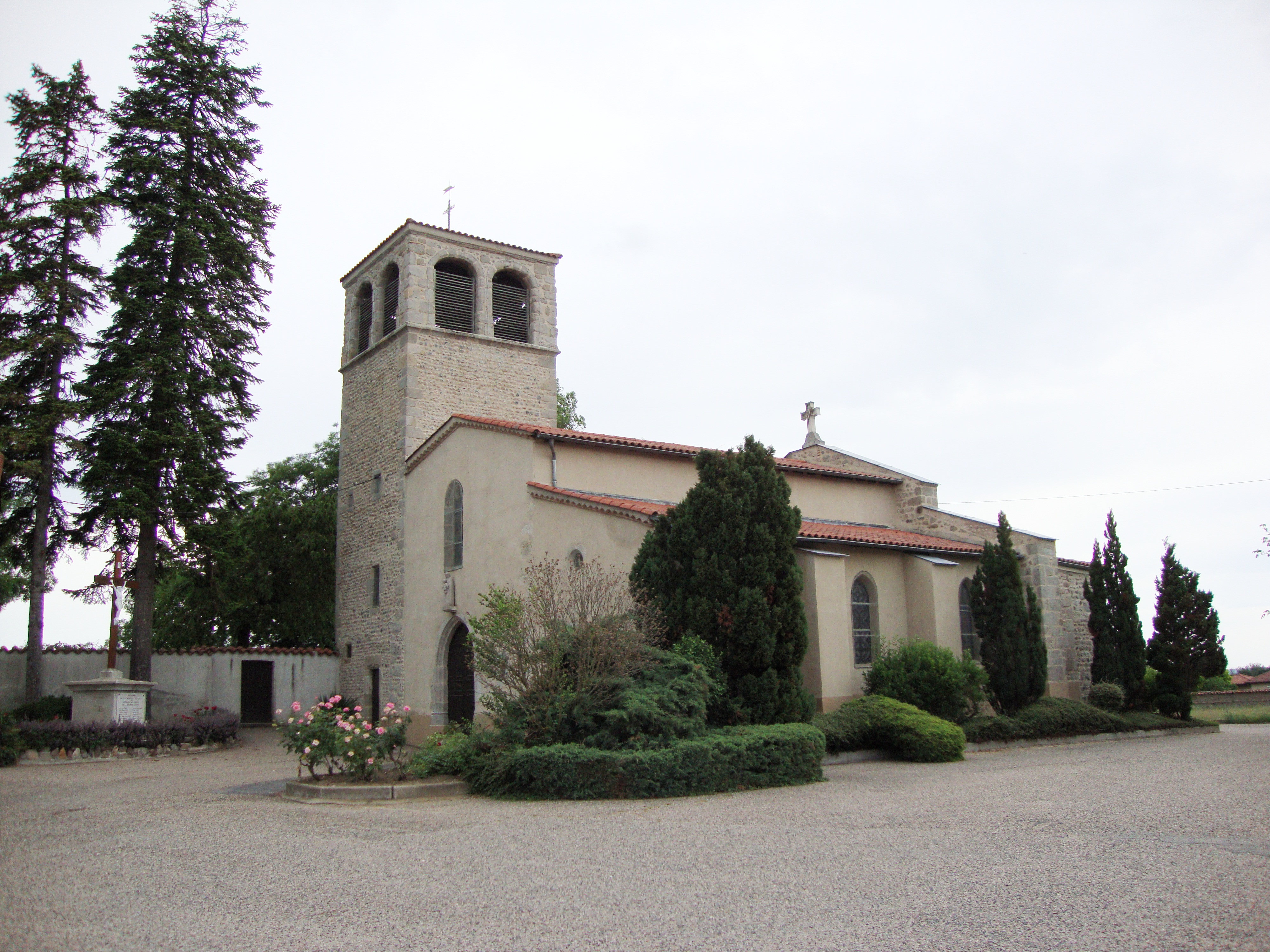 Marclopt (Loire, Fr) church